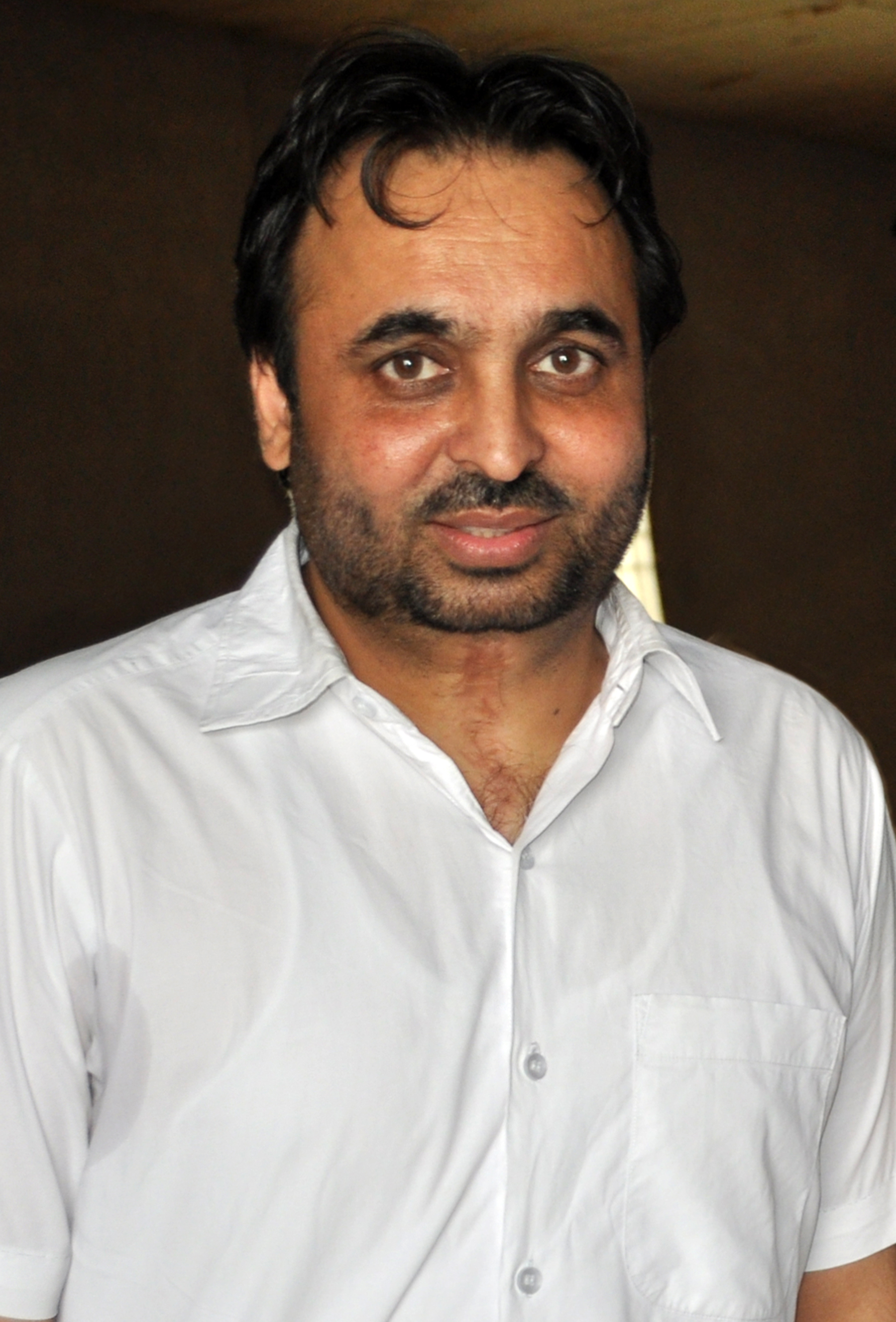 ਭਗਵੰਤ ਮਾਨ